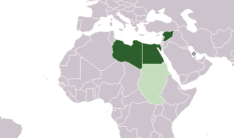 Federation of Arab Republics 1971: Federation agreement between Egypt, Libya and Syria - Sudan is said to join later but begins to retire from the project